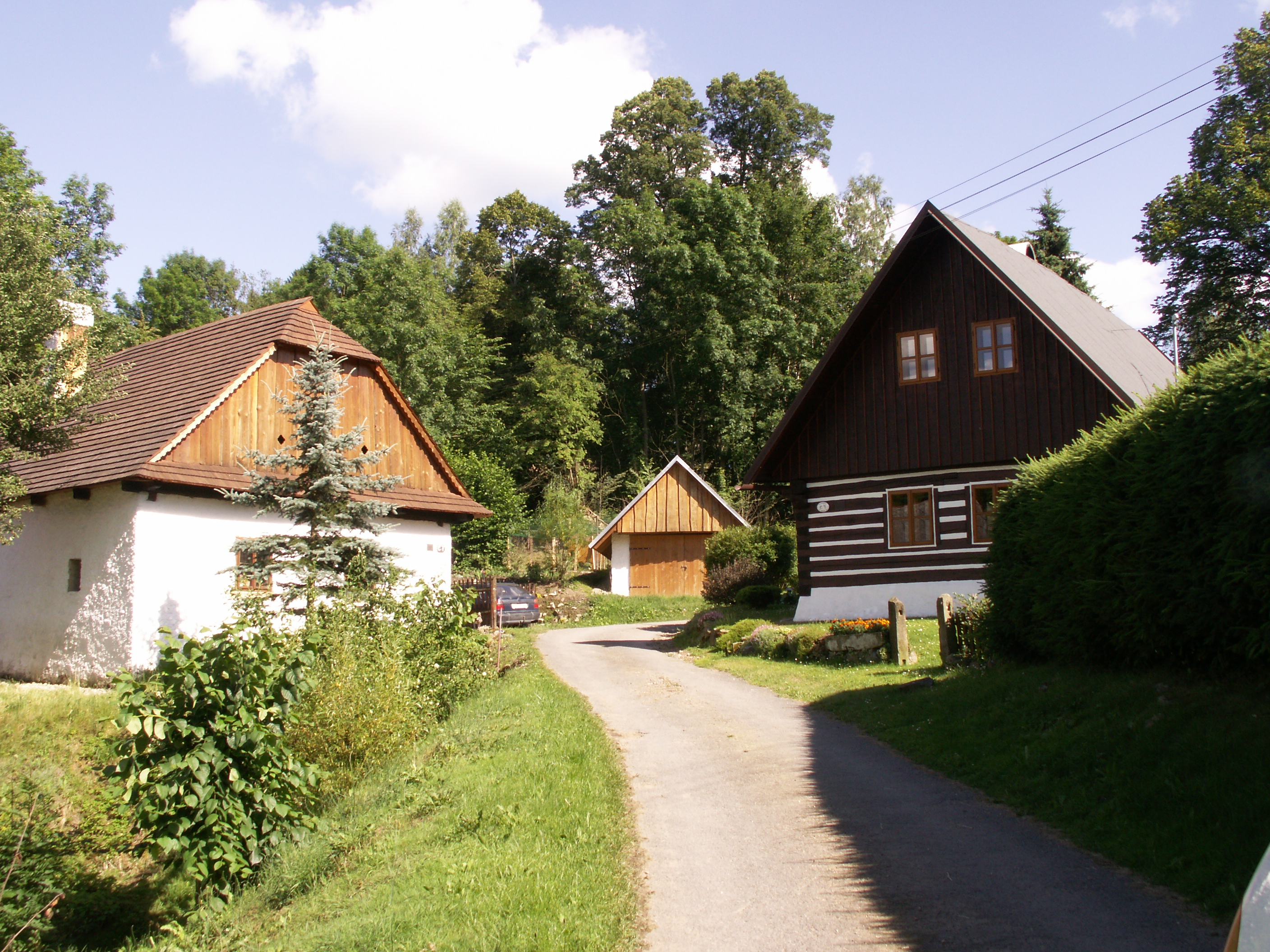 KONICA MINOLTA DIGITAL CAMERA, Podmoklany, okres Havlíčkův Brod, kraj Vysočina